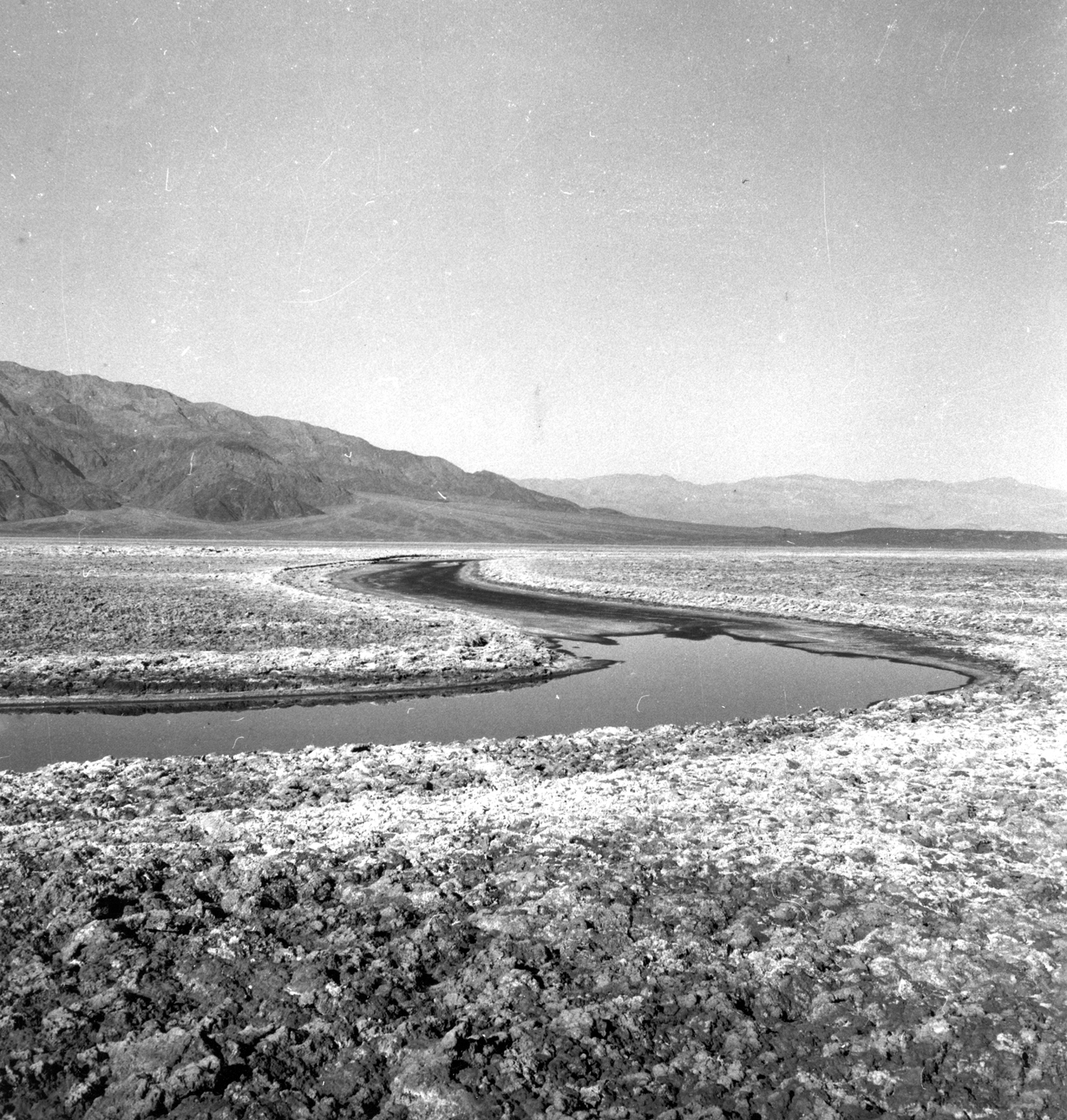 Death Valley National Park, California. West distributary of Salt Creek where it crosses the smooth silty rock to the flood plain in Cottonball Basin. This channel is 32 feet wide and 1 foot deep. Much of the efflorescence on the channel upstream from the pool is mirabilite, the hydrous sodium sulfate. Circa 1960.